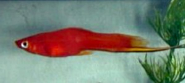 Green swordtail (Xiphophorus helleri).